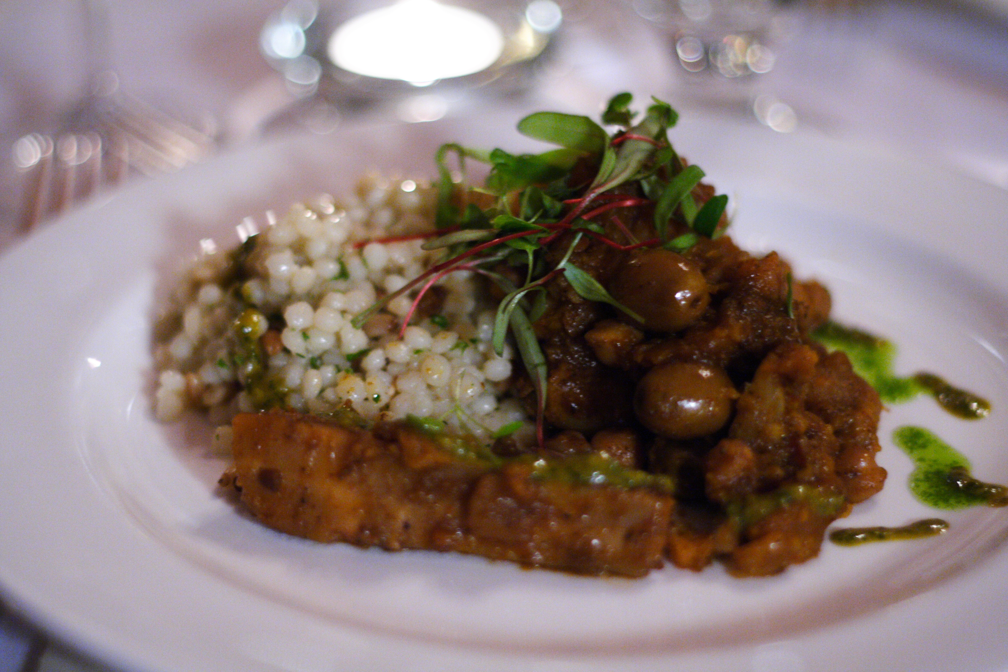 Slow-baked Moroccan tagine: Assorted root vegetables, chickpeas, pearl couscous-pine nut pilaf, chermoula (a Tunisian sauce). Please note that Tunisian tagine is quite different.